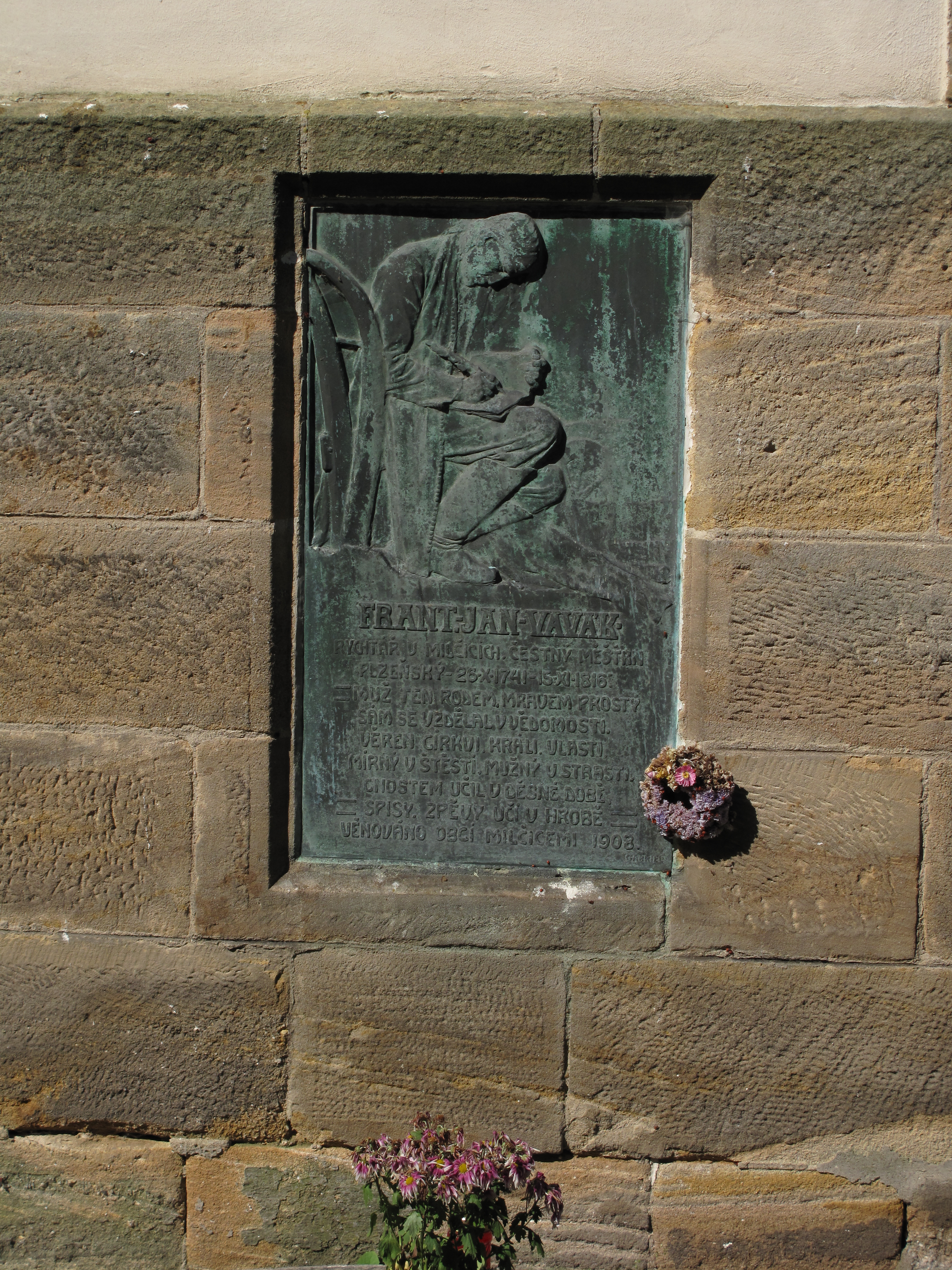 Memorial plaque of František Jan Vavák in Srkamníky village, Kolín District, Czech Republic.